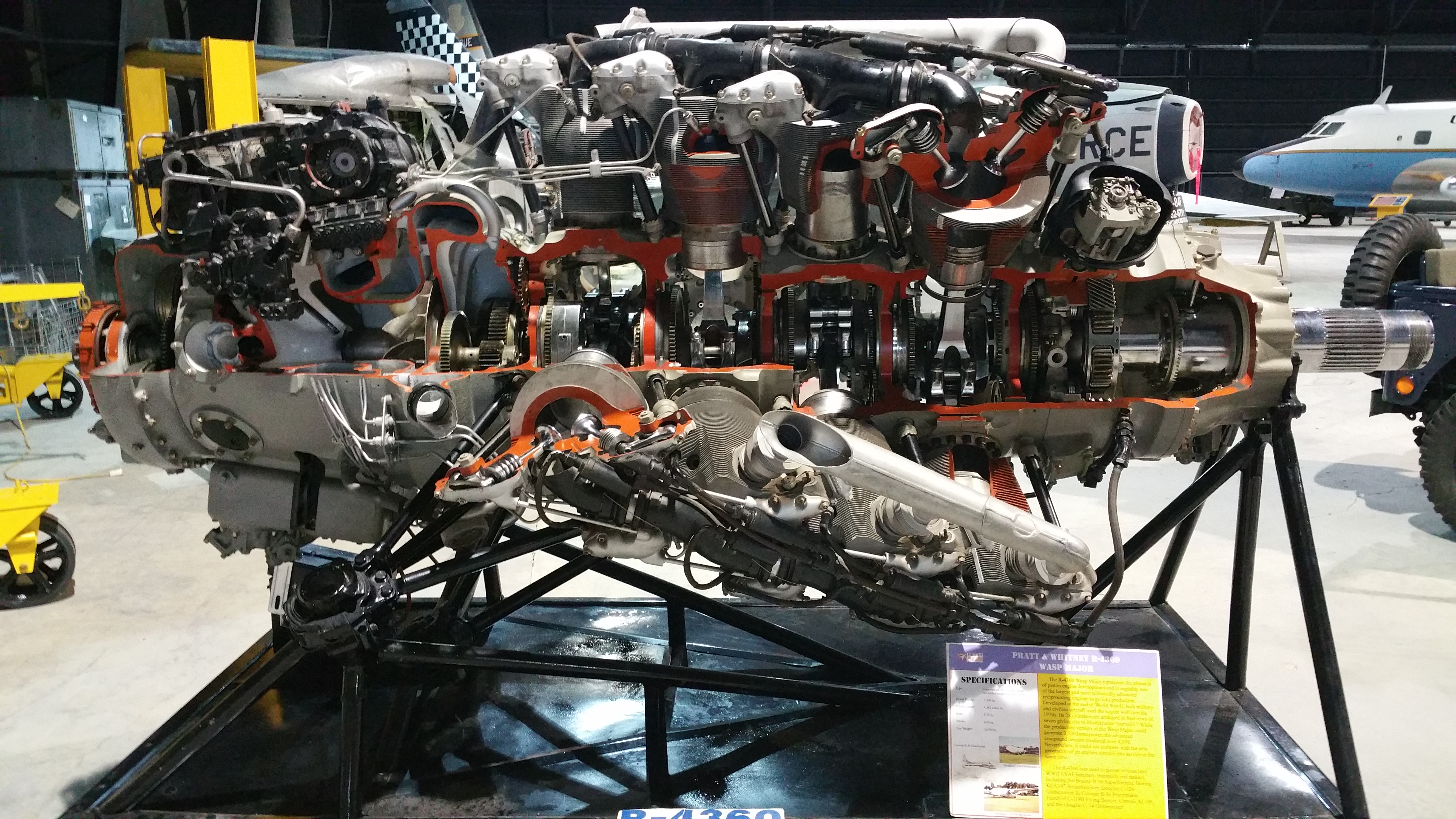 Pratt & Whitney Wasp Major R-4360 aviation engine.